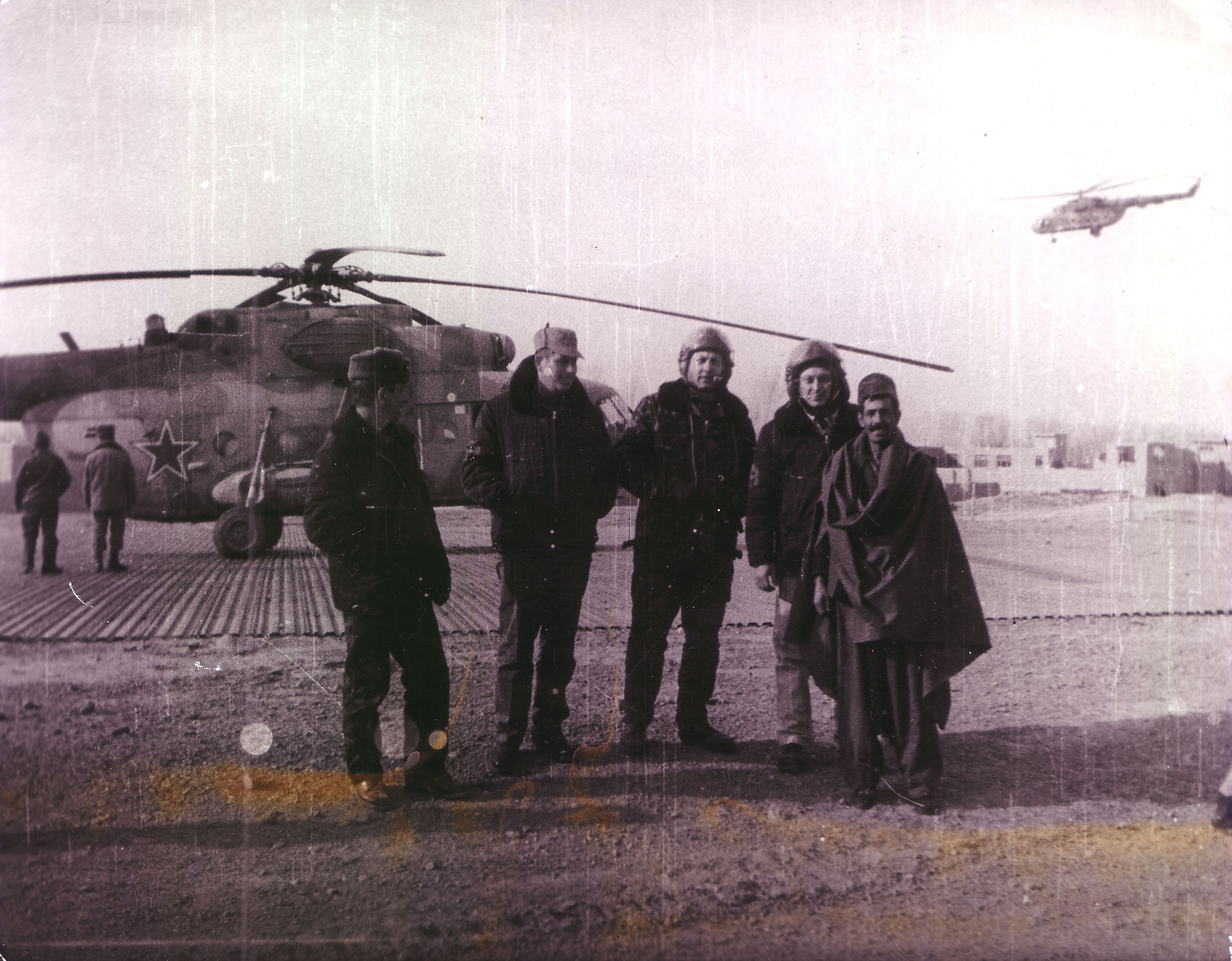 Helicopter pilots of the Soviet Army in Afghanistan in 1987. Military airfield in Baraki Barak, with two Mil Mi-8 helicopters in the background.